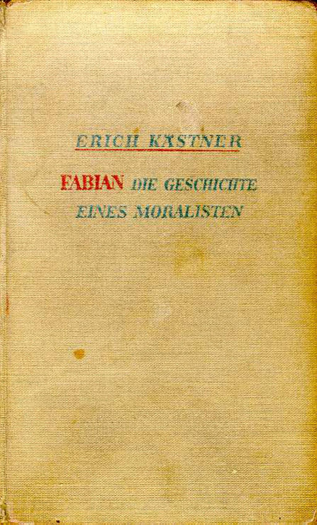 Book cover of Erich Kästner’s novel Fabian.